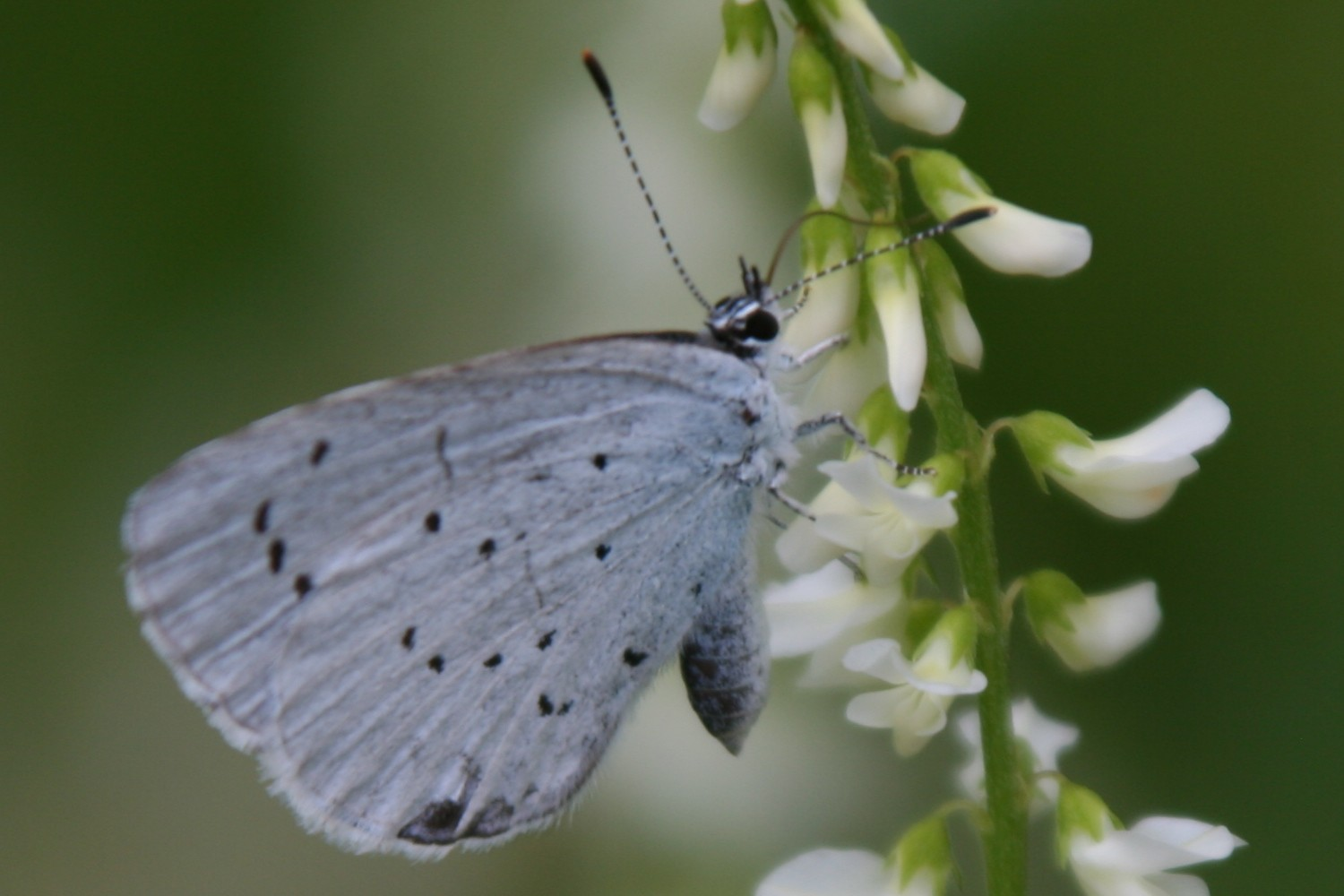 A holly blue butterfly on White Sweet Clover (Melilotus albus), photographed in Weinsberg